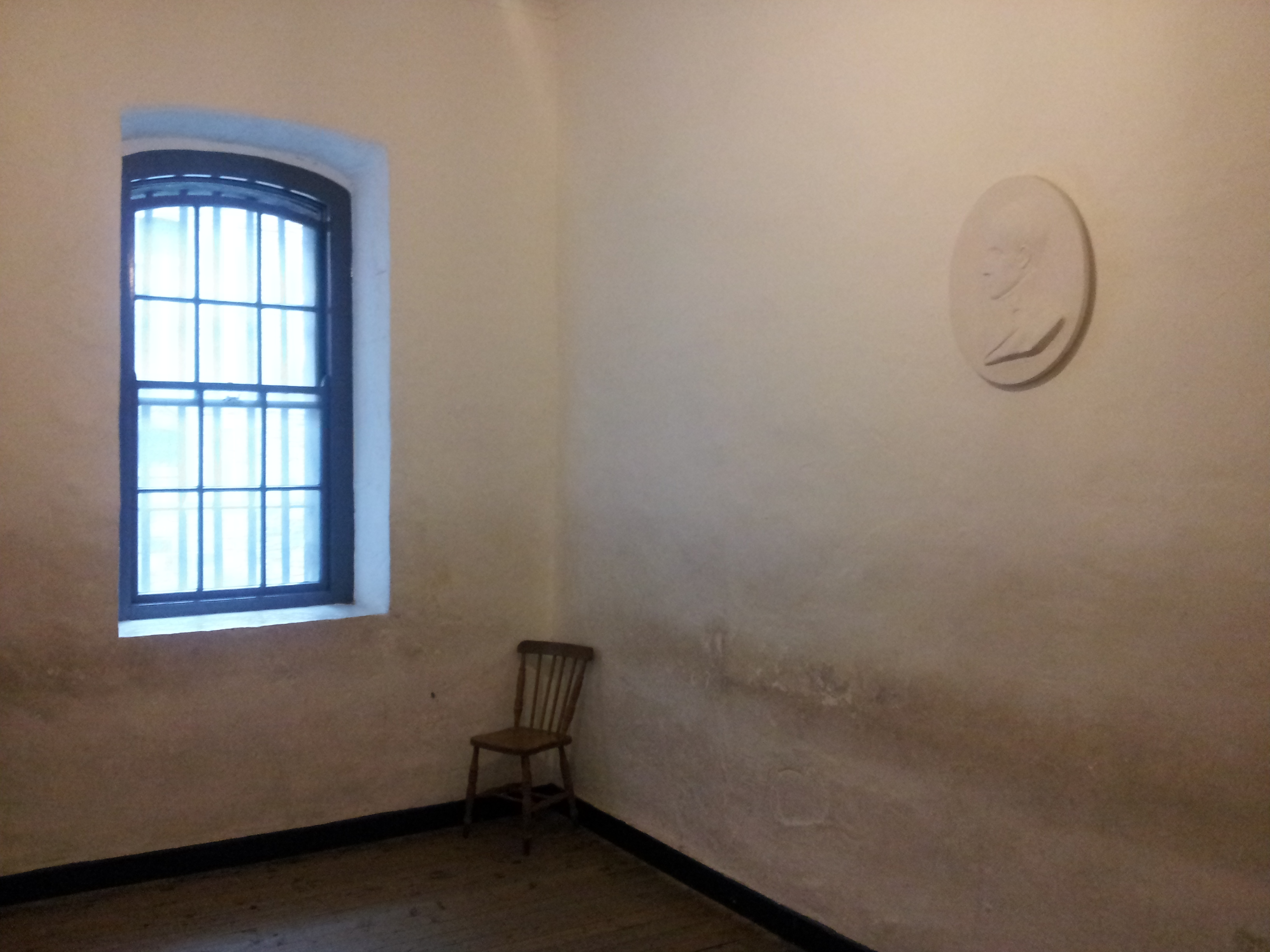 Robert Emmet's cell in Kilmainham Gaol